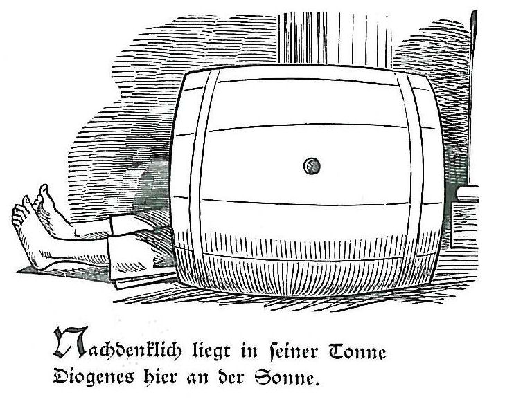 Illustration of Wilhelm Busch's story "Die bösen Buben von Korinth" (from: Fliegende Blätter und Münchener Bilderbogen 1859-1871)